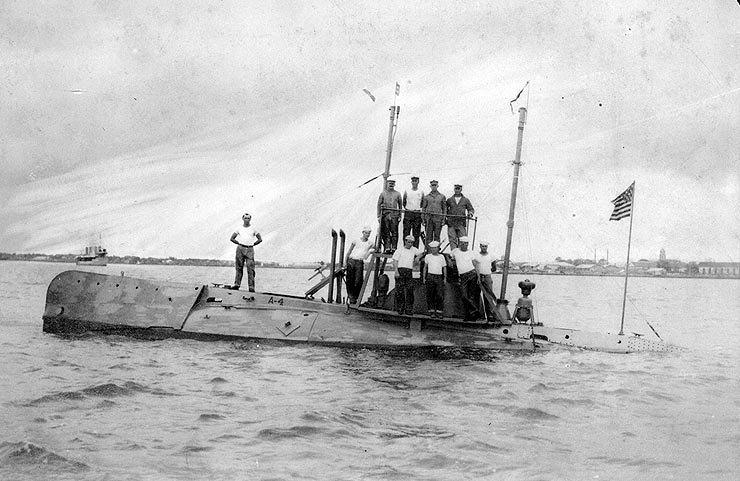 USS A-4 (Submarine # 5) with her crew on deck in Manila Bay, Philippine Islands, circa 1912. Original caption: “Photo # NH 57700-A USS A-4 with her crew on deck, in Manila Bay, circa 1912” — removed caption